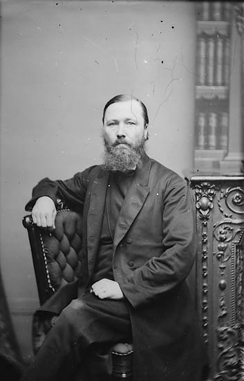 1 negative : glass, wet collodion, b&w ; 11 x 16.5 cm.